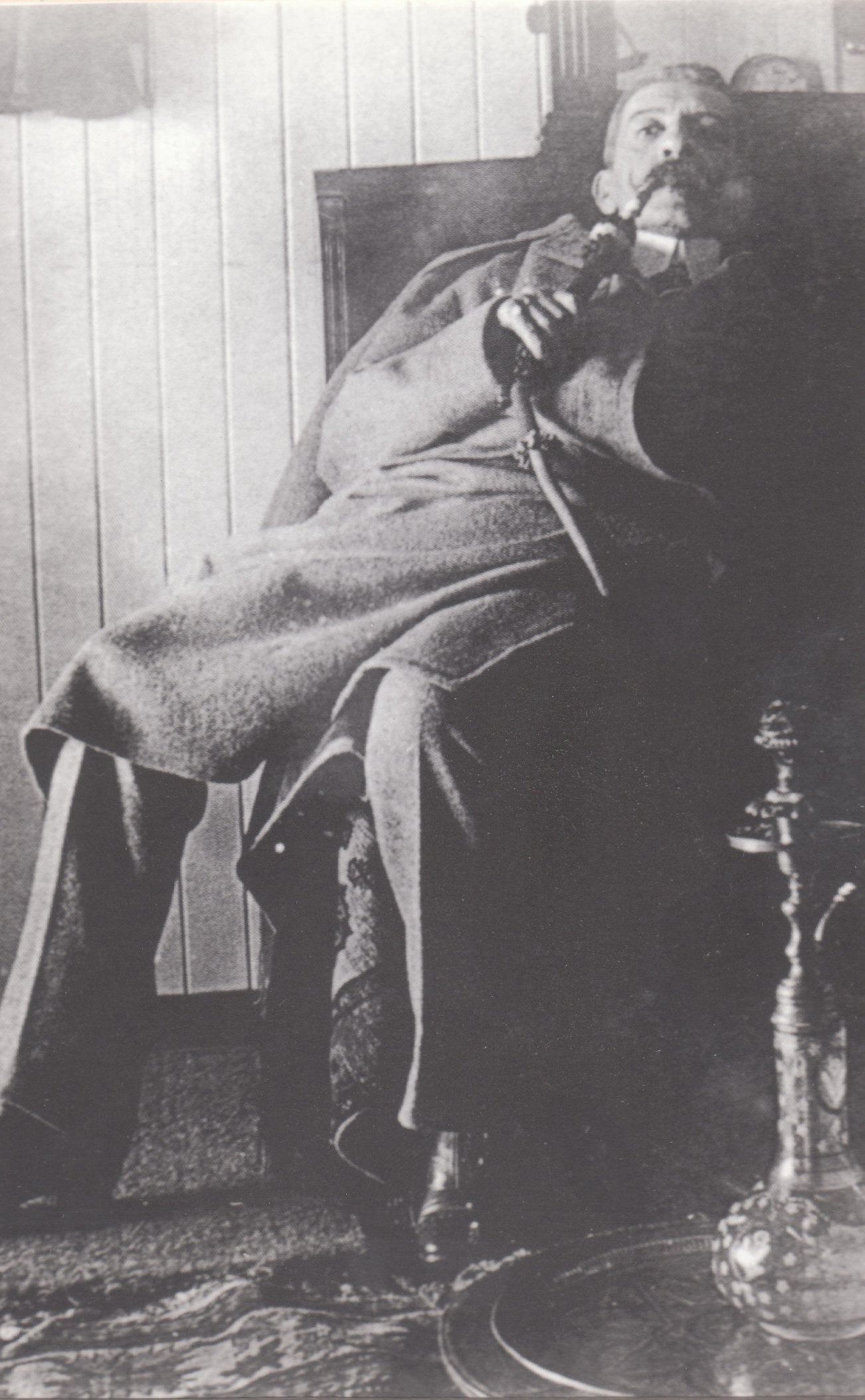 The turcophil Writer Pierre Loti smokes the ottoman waterpipe Nargile; 1900